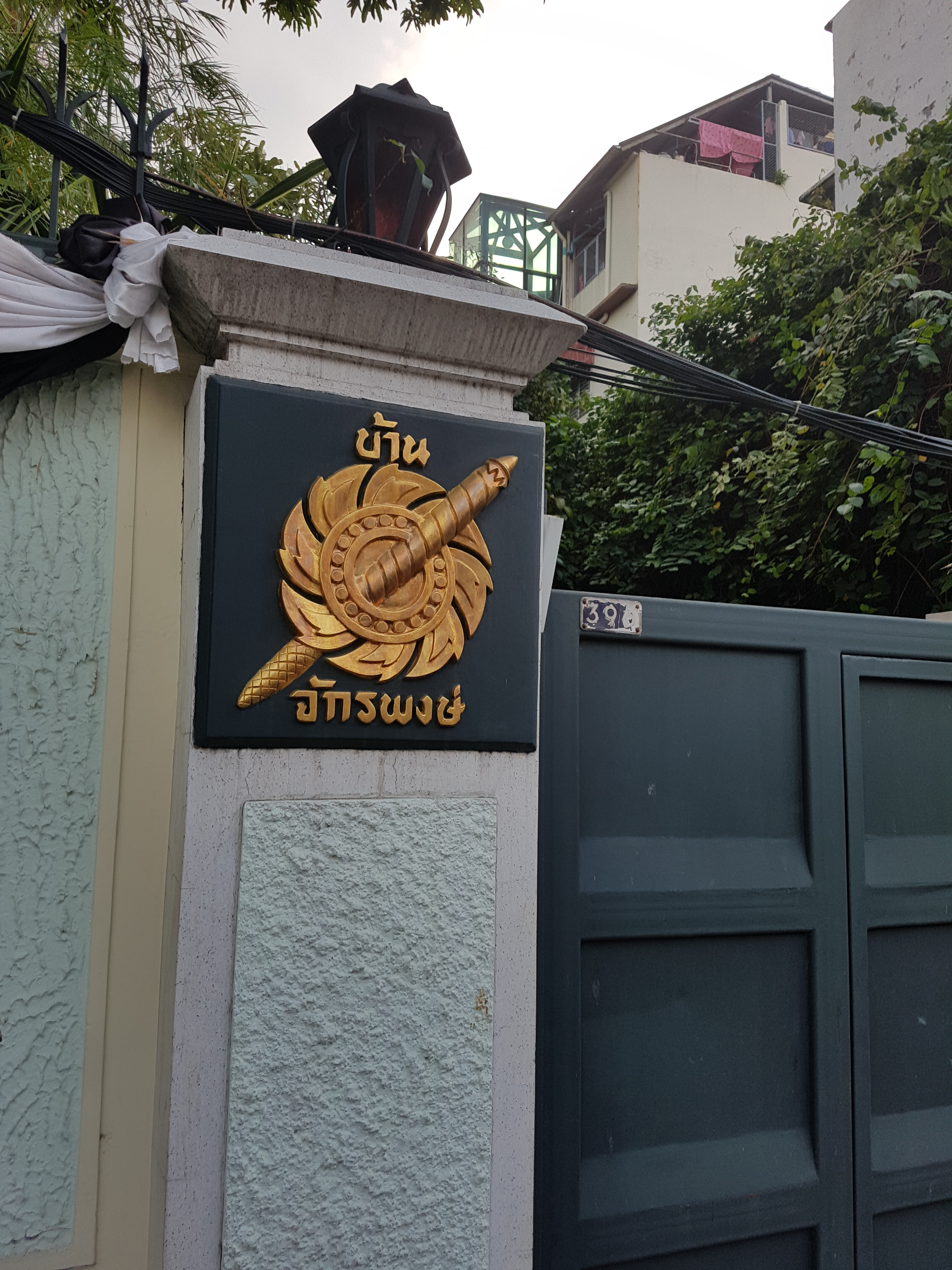 Chakrabongse Mansion, residence of the royal house of Chakrabongse, located on Maha Rat Road, Phra Borom Maha Ratchawang Subdistrict, Phra Nakhon District, Bangkok.